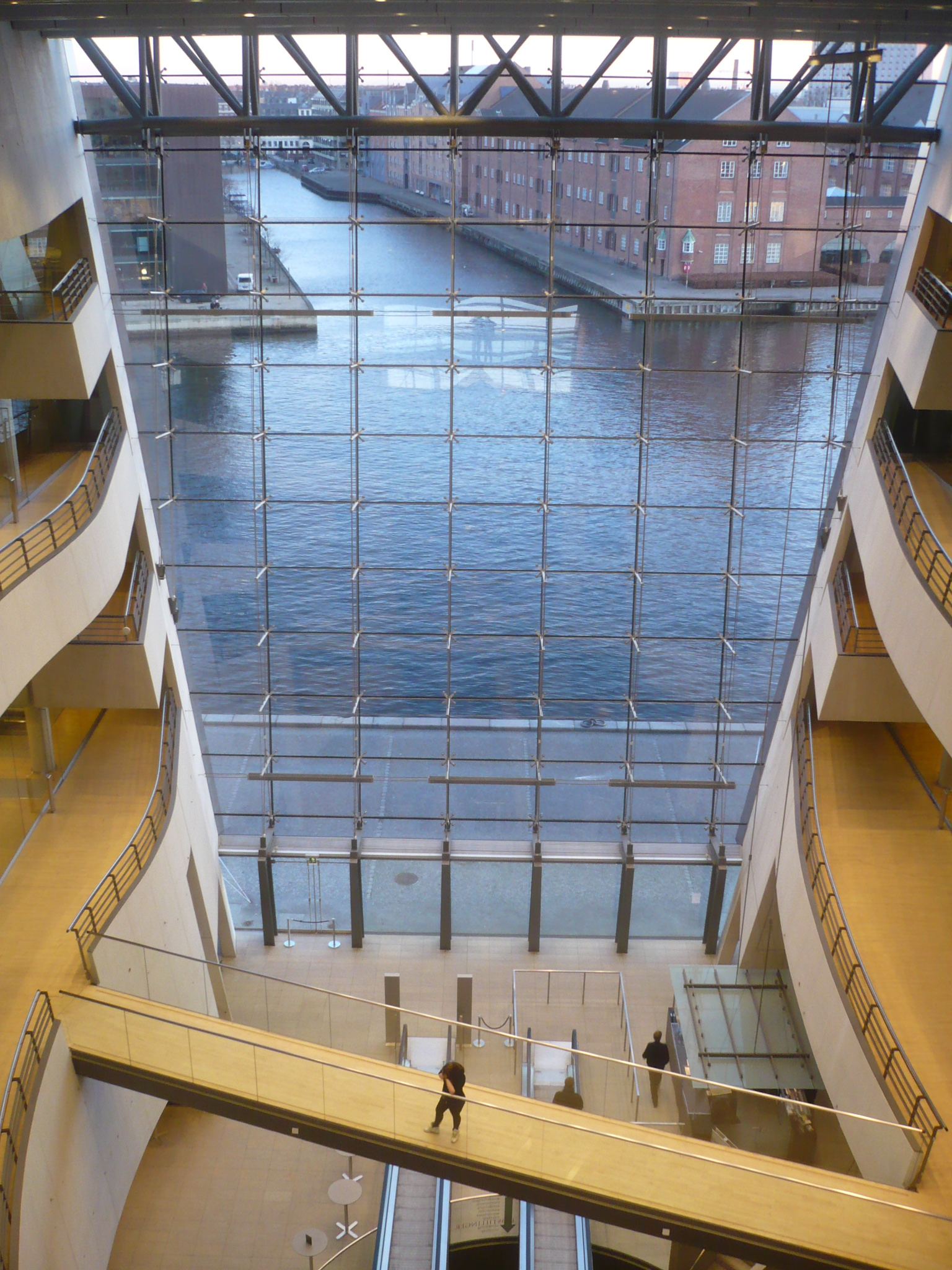 The atrium of the Black Diamond extension to the Royal Danish Library in Copenhagen, Denmark